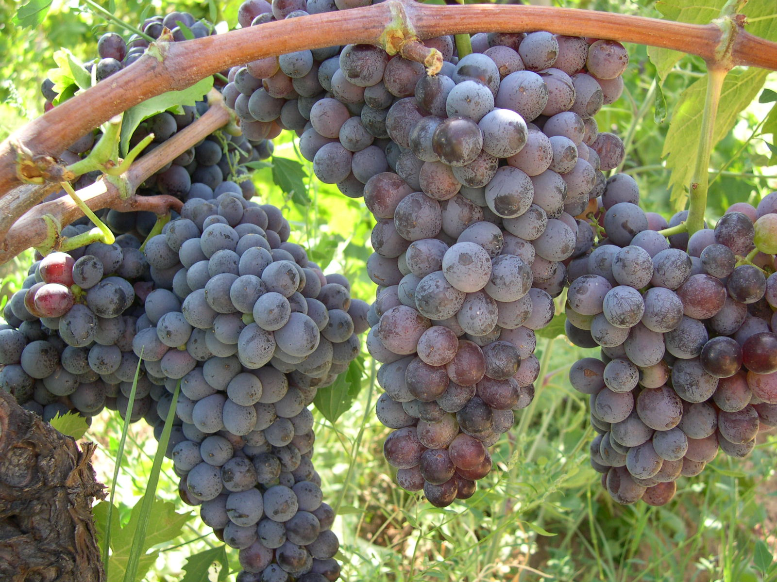 Gaglioppo, one of the most important grape varieties in southern Italy, especially in the region of Calabria